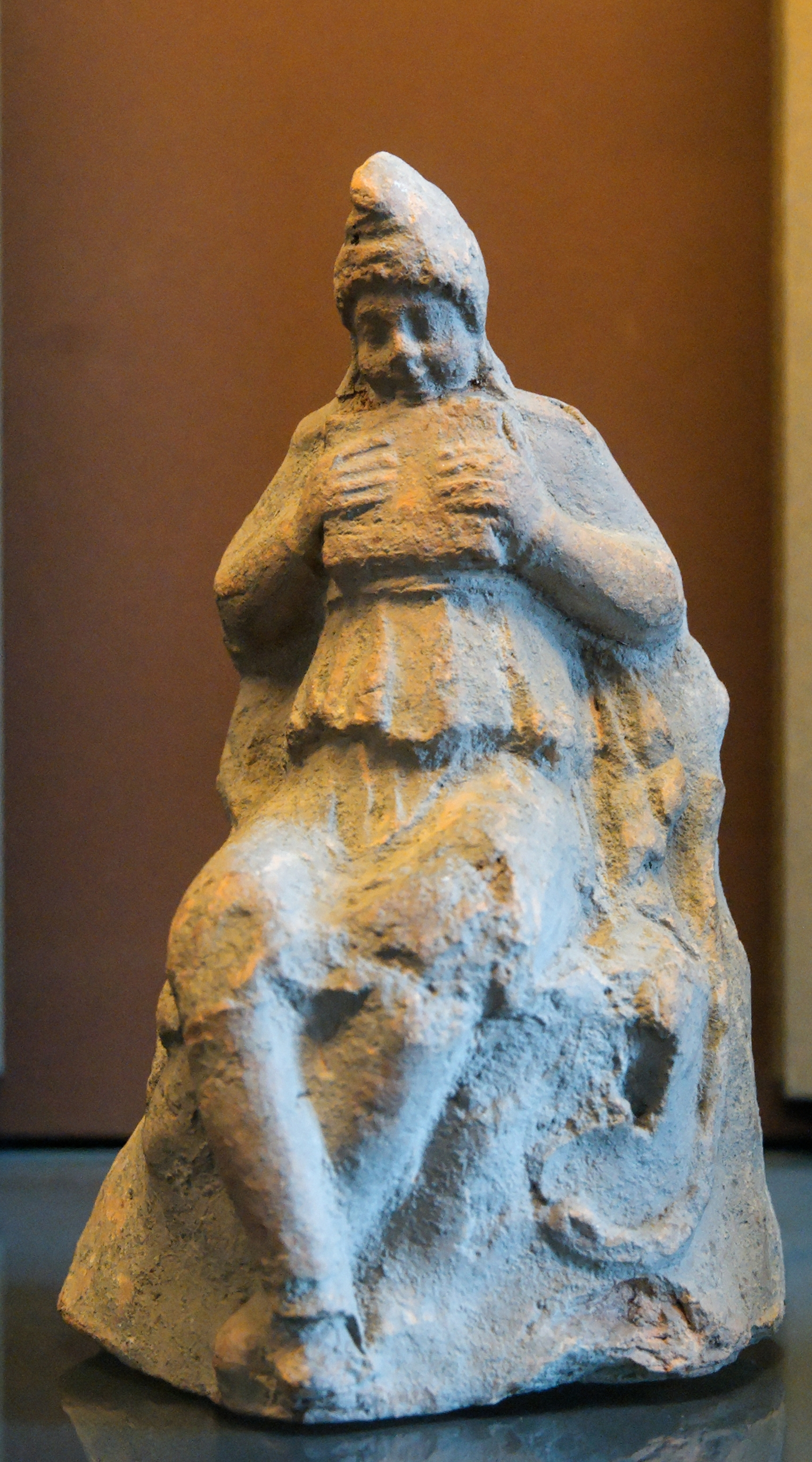 Attis playing the syrinx. Terracotta, made in Macedonia ca. 200–150 BC. From Amphipolis?